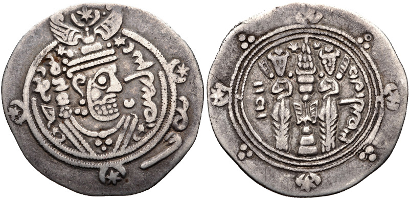 Dābūyid Ispahbads of Tabaristan. Khurshīd. PYE 89-109 / AH 123-144 / AD 740-761.